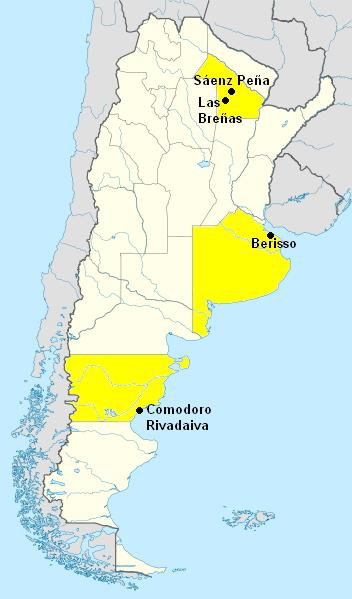 Bulgarian, Argentina, immigration